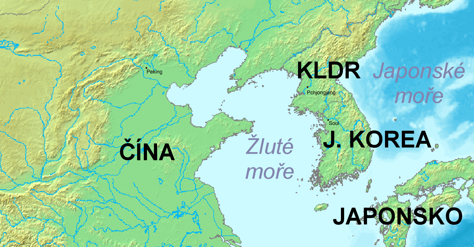 Map of the Yellow See